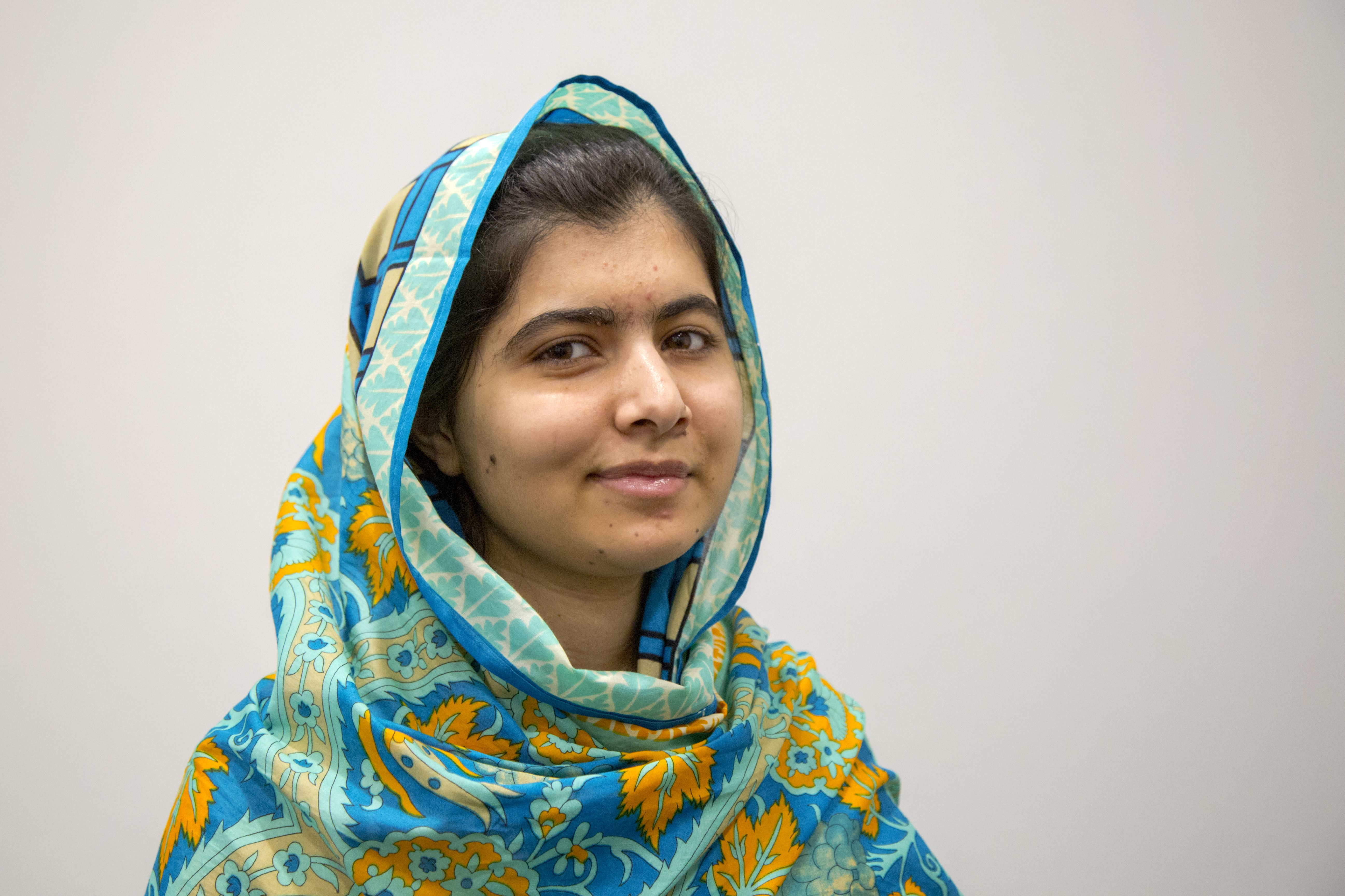 Education campaigner Malala Yousafzai joined International Development Secretary Justine Greening in London to discuss the importance of getting girls through school around the world. Over 60 million girls in the world are out of school. Malala - a Nobel Peace Prize winner - is leading a drive to ensure all girls get access to 12 years of free, safe, quality primary and secondary education. Joining Malala at the recent Global Goals festival in New York, Justine Greening said: "I don’t believe that any country can develop if half its population is left behind. "It’s about voice, choice and control for girls and women. That starts with education. "I’m committing that the UK will help 6.5 million more girls to go to school over the next 5 years". Read more about the UK’s support for girls in school at: Find out more about Malala’s campaign to get all girls an education at: Picture: Simon Davis/DFID Free-to-use photo This image is posted under a Creative Commons - Attribution Licence, in accordance with the Open Government Licence. You are free to embed, download or otherwise re-use it, as long as you credit the source as 'Simon Davis/DFID'.